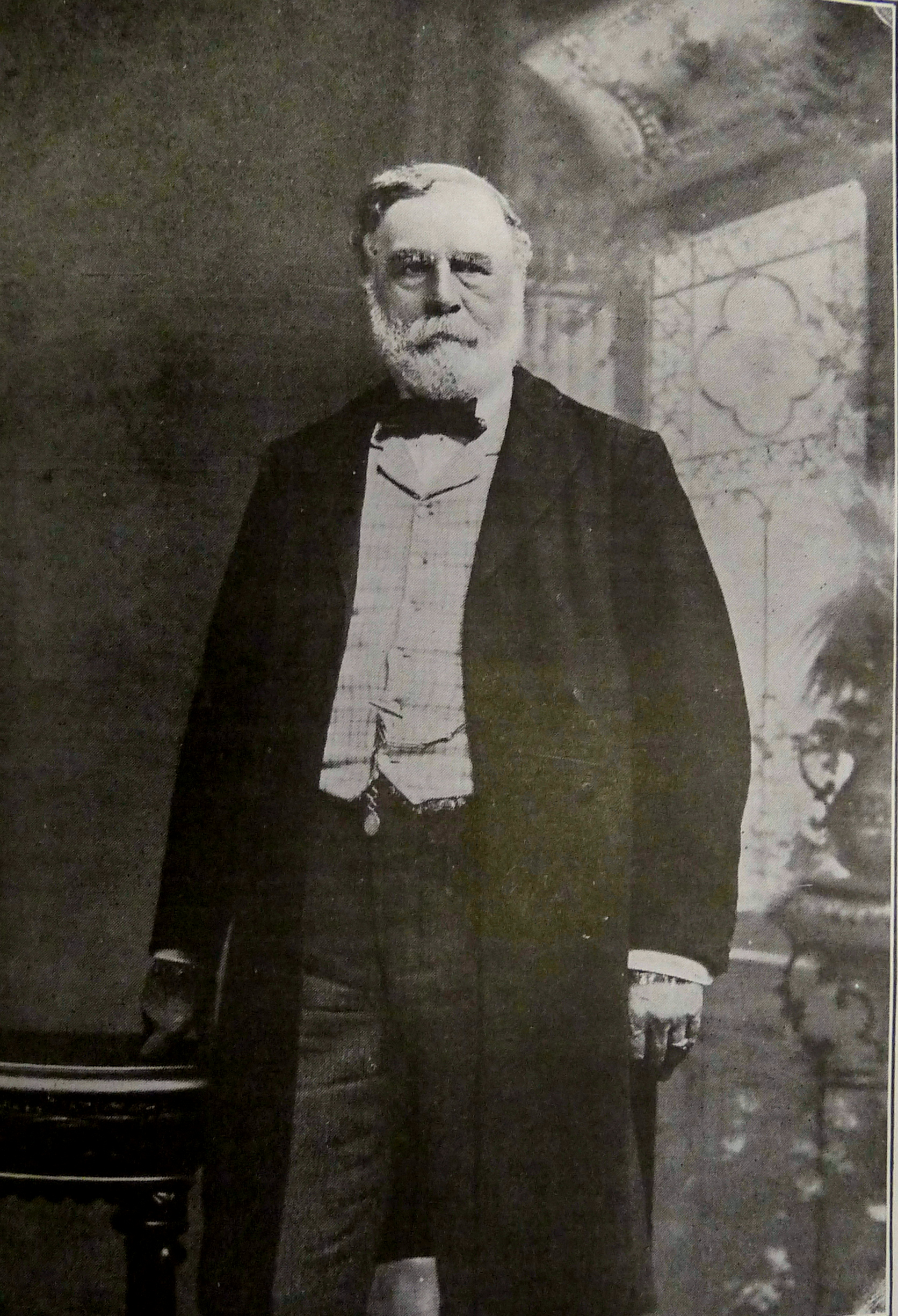 Developer Thomas Dence (1840-1918) who paid for the 1903-1904 erection of the East Cliff Pavilion, which was to become the first phase of the King's Hall, Herne Bay, Kent, England.